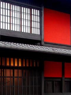 Front of the Gion Ichiriki Ochaya